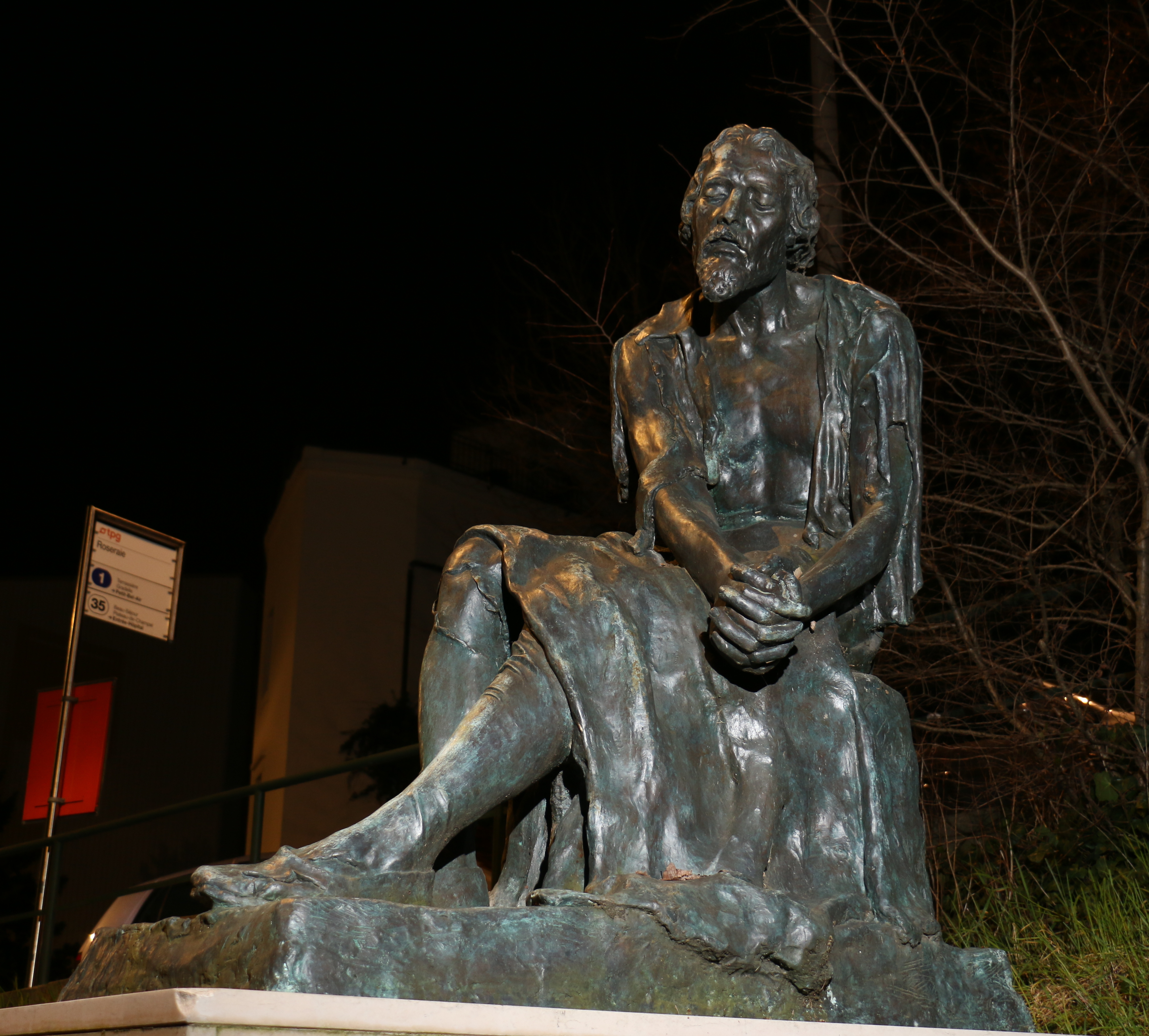 Monument of Michel Servet in Geneva